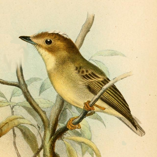 Platyrhynchus flavigularis = Platyrinchus flavigularis, Yellow-throated Spadebill